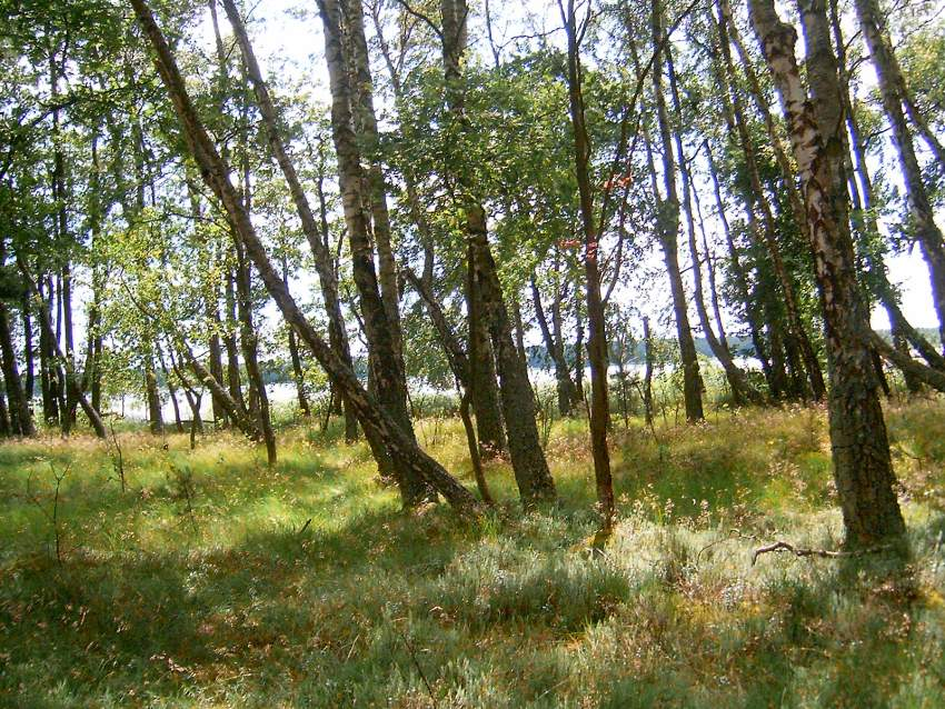 Łeba